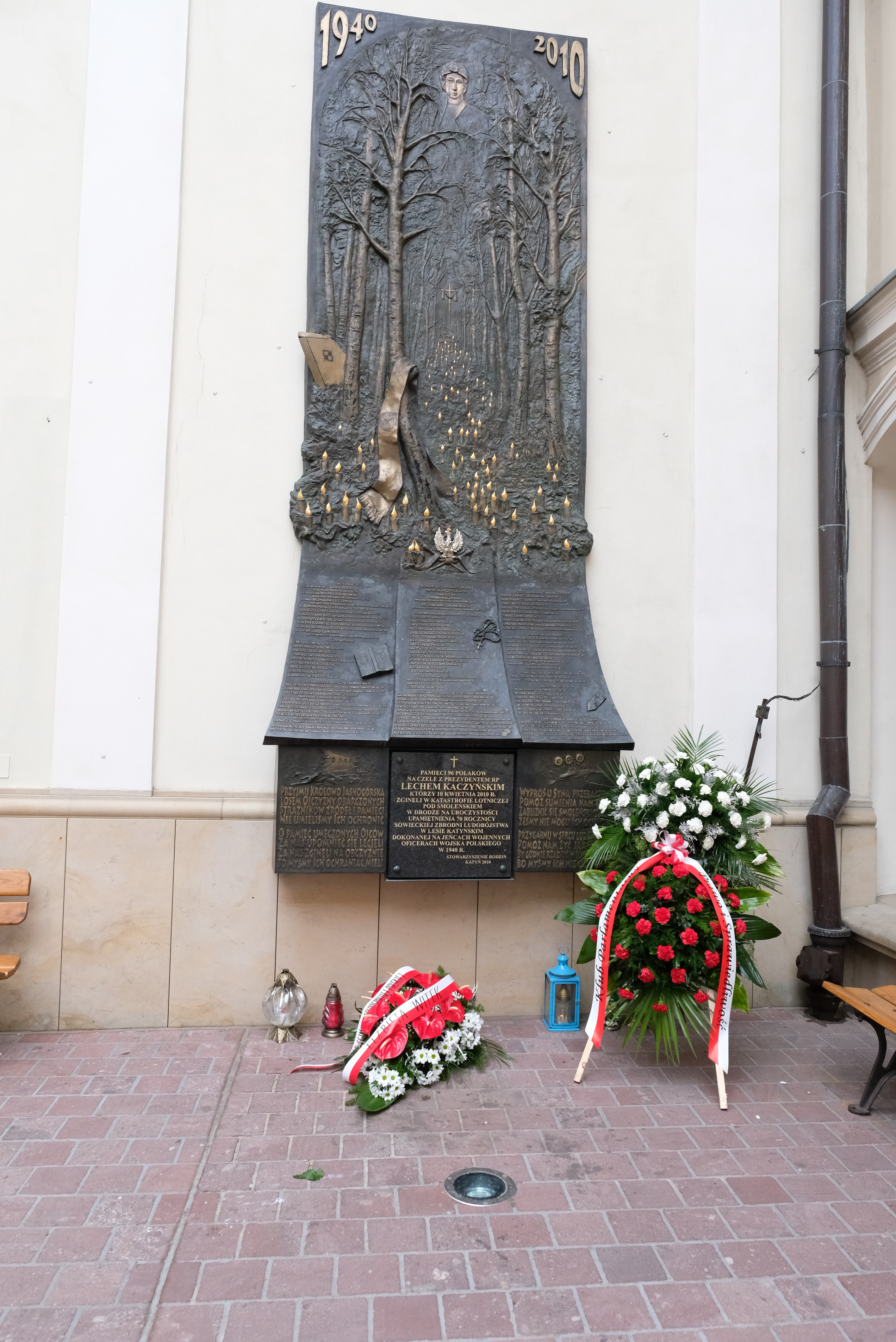 Smolensk Epitaph in Jasna Góra. 96 victims of the Smolensk tragedy commemorated, including the President of the Republic of Poland Lech Kaczyński and the first lady Maria Kaczyńska. 31. Pilgrimage of Parliamentarians to Jasna Góra.